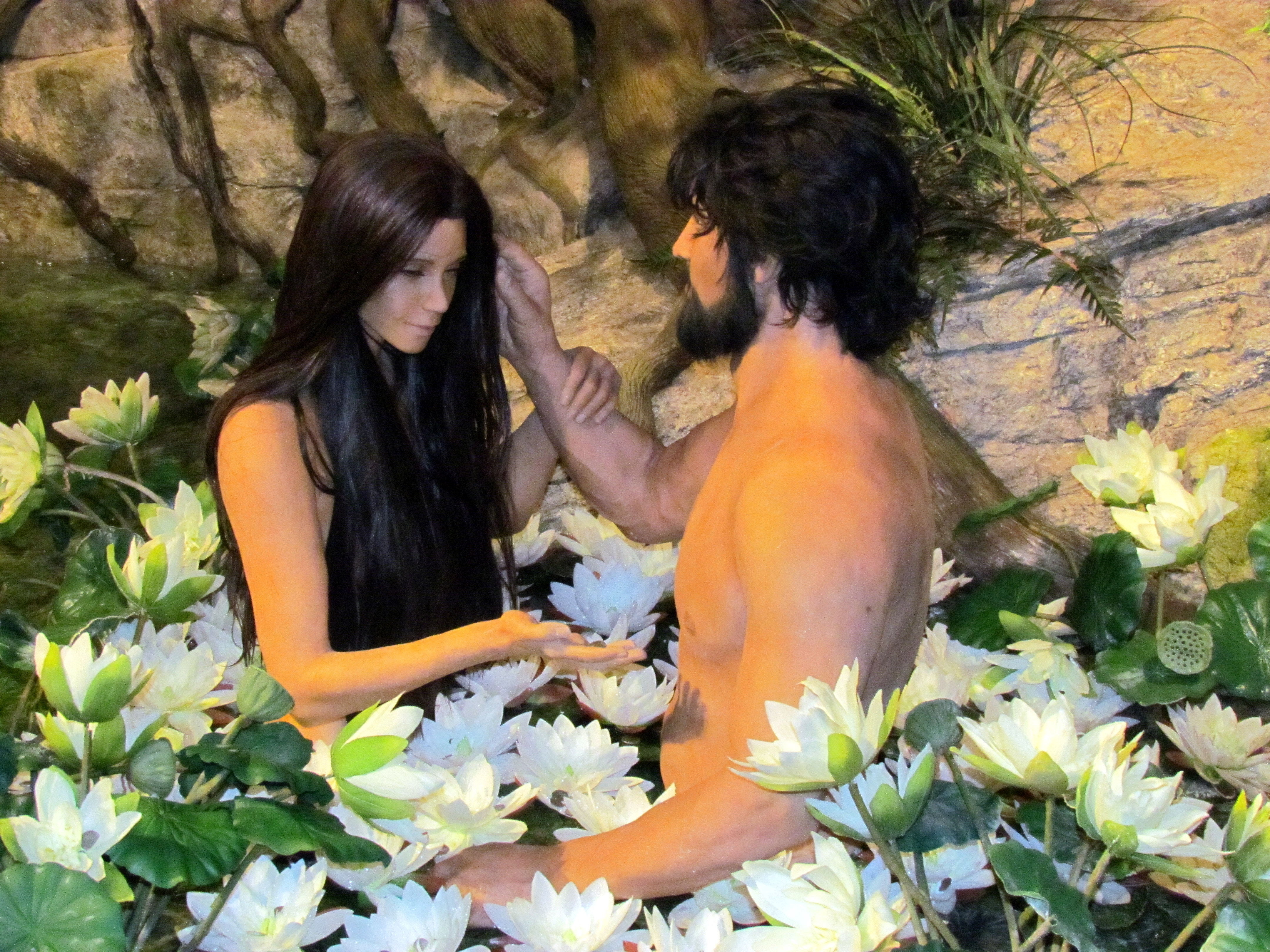 Creation Museum in Petersburg, Kentucky